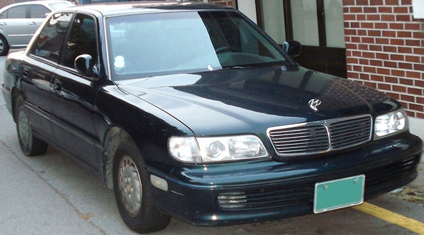 Hyundai New Grandeur